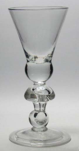 A Heavy Baluster Wine Glass which dates to 1710, with thistle bowl above a mushroom and basal knop,English lead, 6 3/8 inches tall.